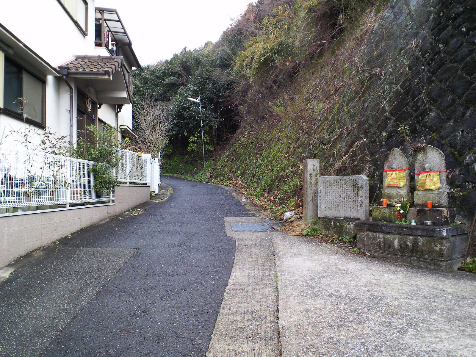 Koudachi-chayatsuji, Yao, Osaka Japan